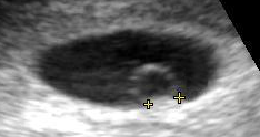 Obstetric ultrasound of embryo at 5 weeks, measuring 3 mm, with yolk sac above.